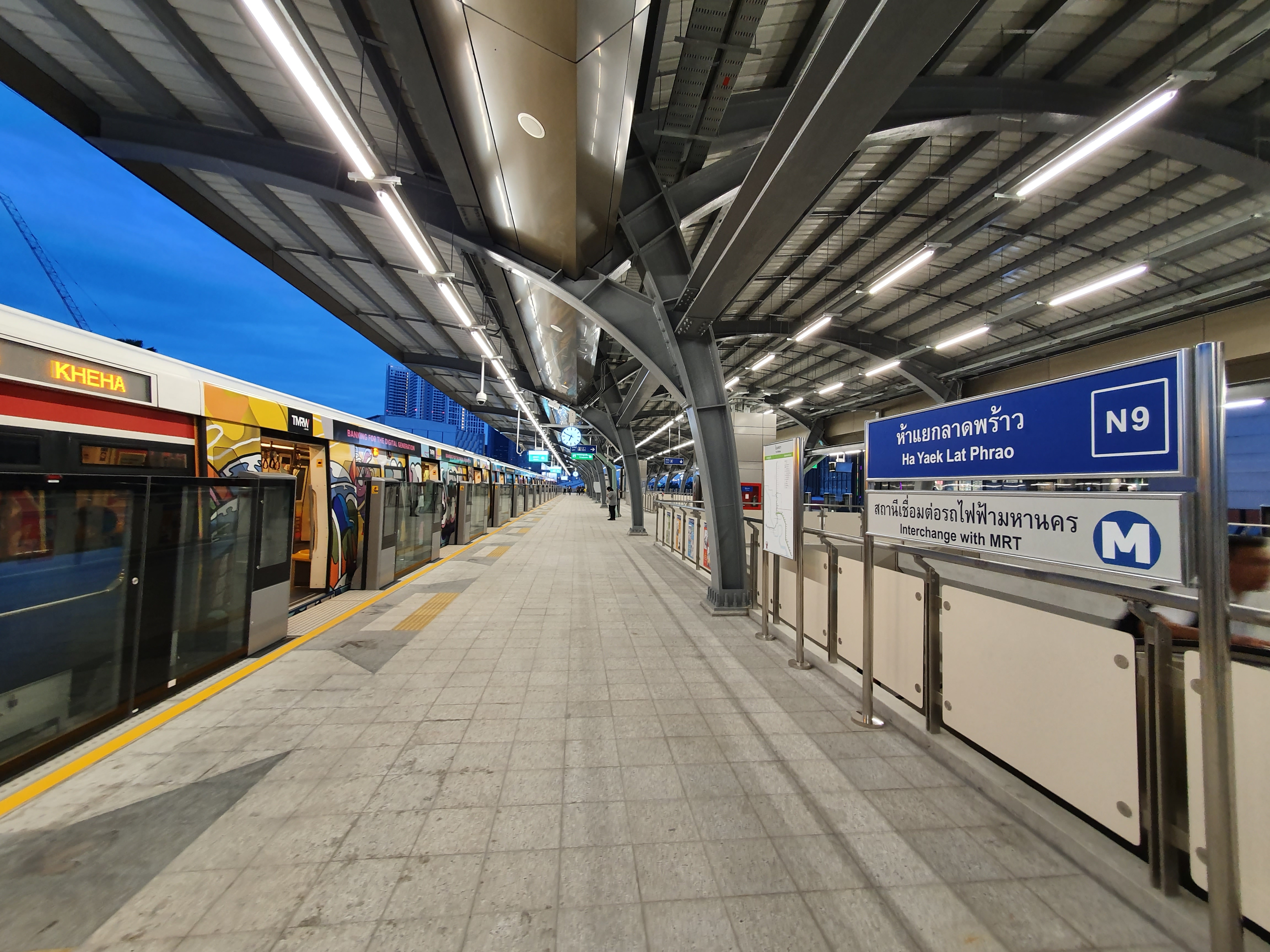 Overview of BTS Ha Yaek Lat Phrao Platform